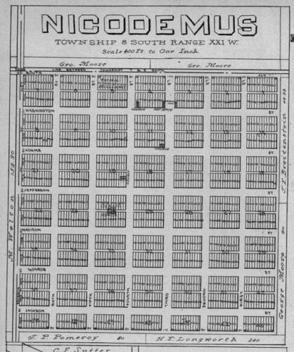 Image is from Library of Congress